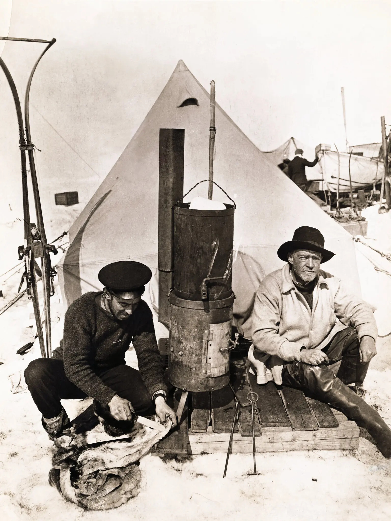 Frank Hurley and Ernest Shackleton at camp.